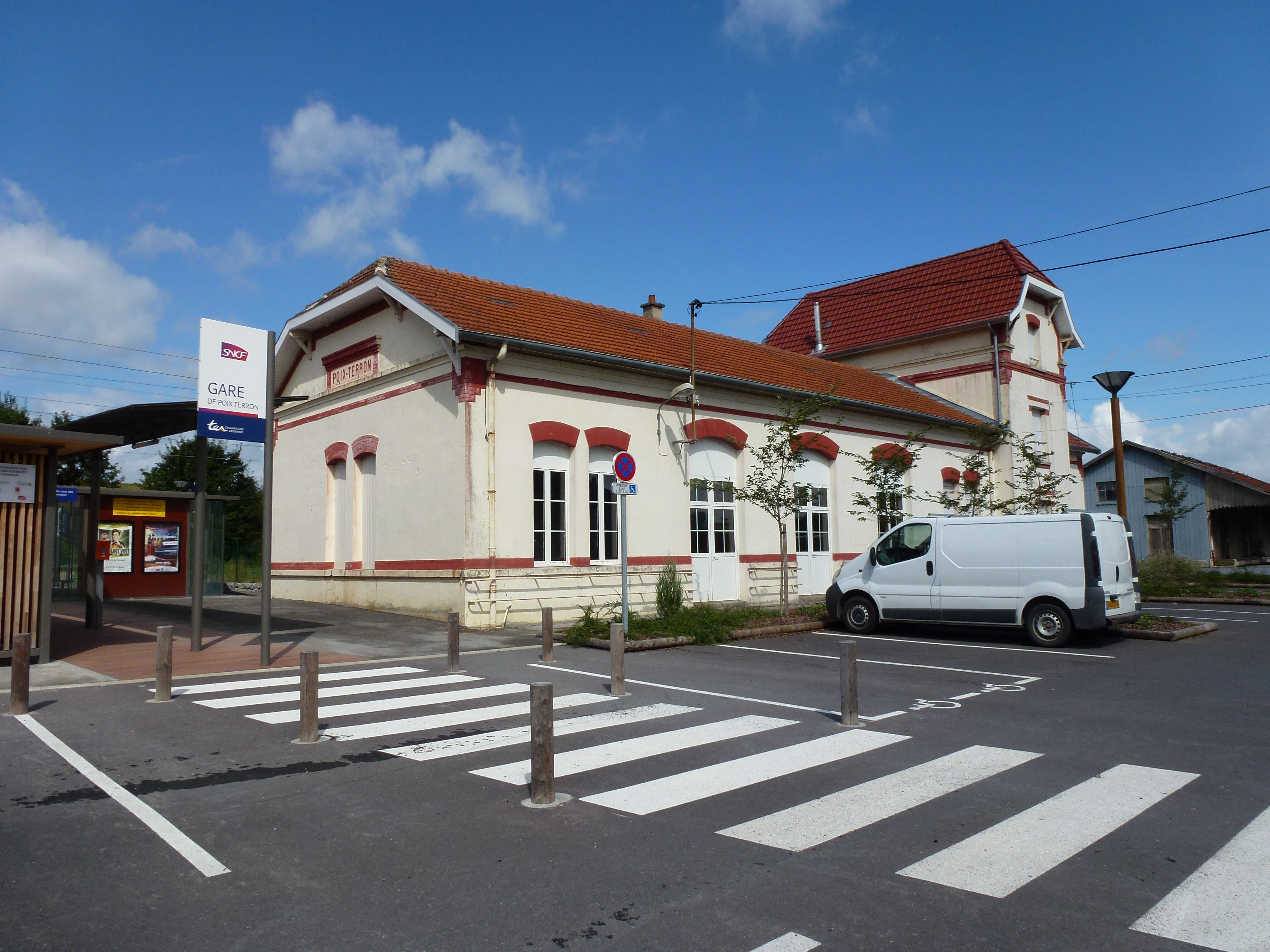 Poix-Terron (Ardennes) gare, l'entrée